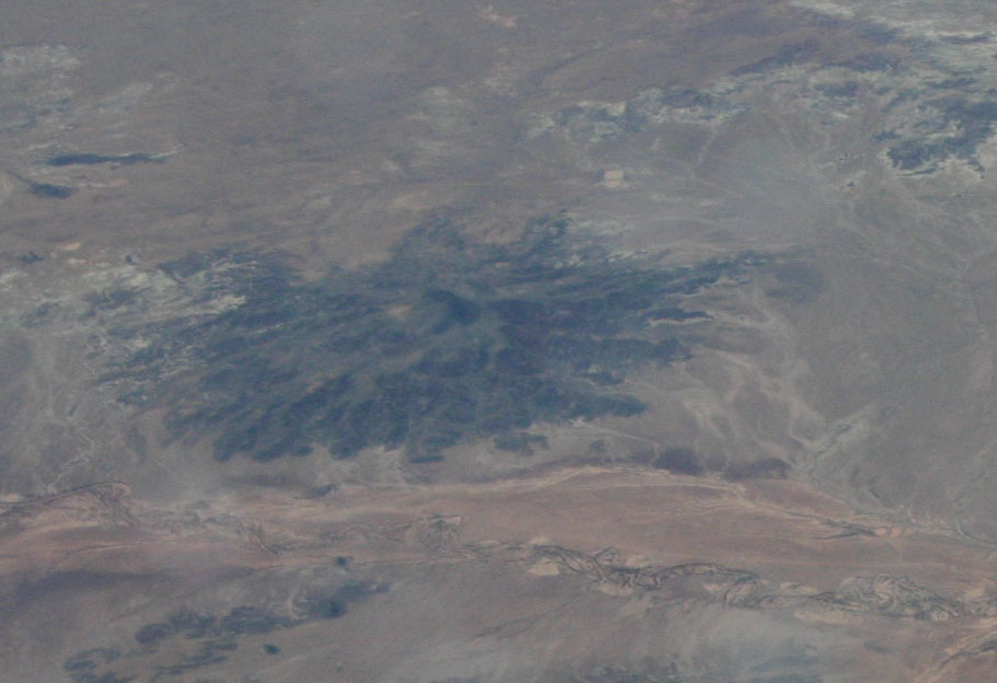 Oblique air photo of Flying Butte, Hopi Buttes volcanic field, Arizona, facing approximately south. Elevation 5909 ft (1,801 meters)